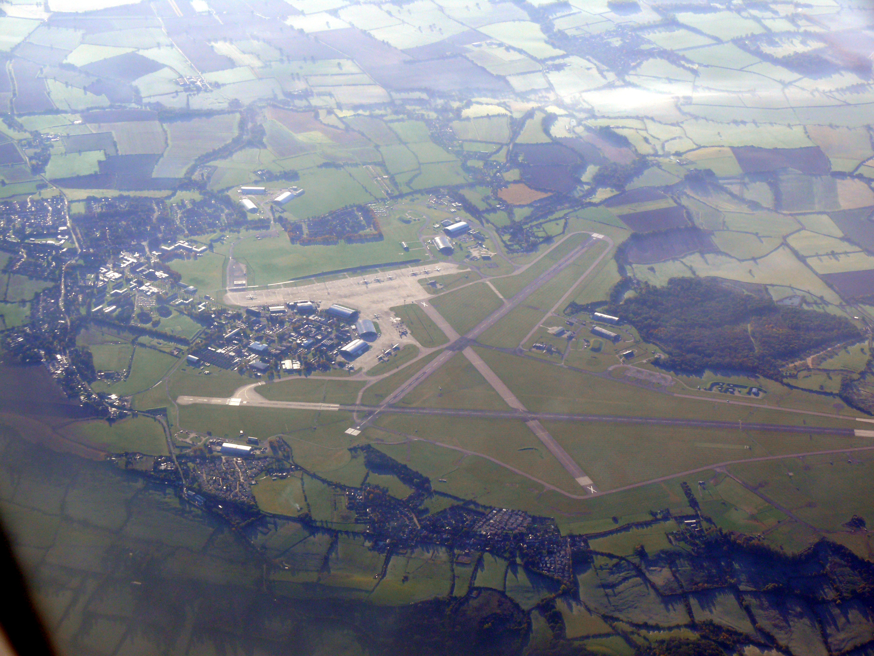 RAF Lyneham is a Royal Air Force station near Lyneham in Wiltshire, England. It is the home of all the Lockheed C-130 Hercules transport aircraft of the Royal Air Force.